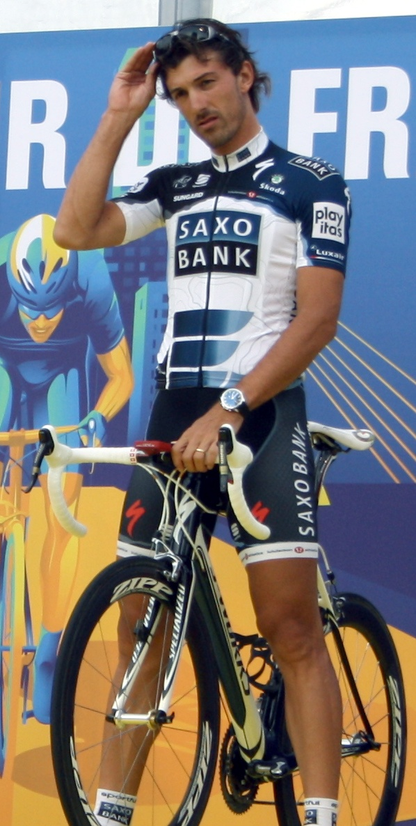 Fabian Cancellara at the team presentation of the 2010 Tour de France in Rotterdam